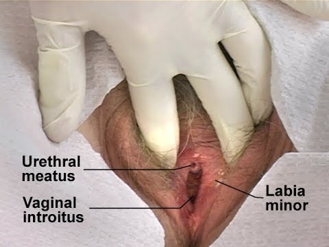 Urethral Meatus